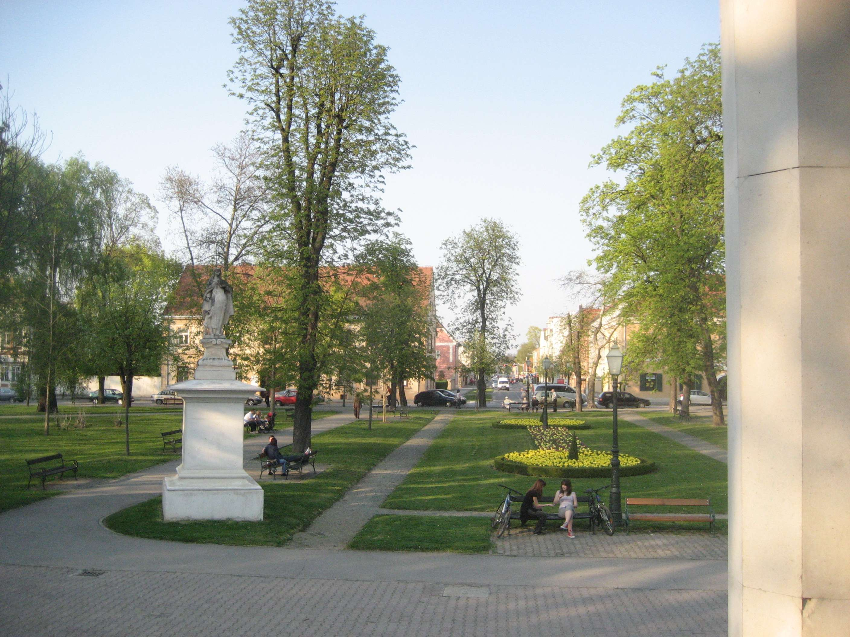 Centre of Bjelovar, Croatia